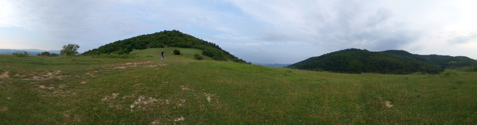 Bosnian Pyramid Valley - Panoramic photos July 2019 Visoko, Bosnia and Herzegovina, Europe